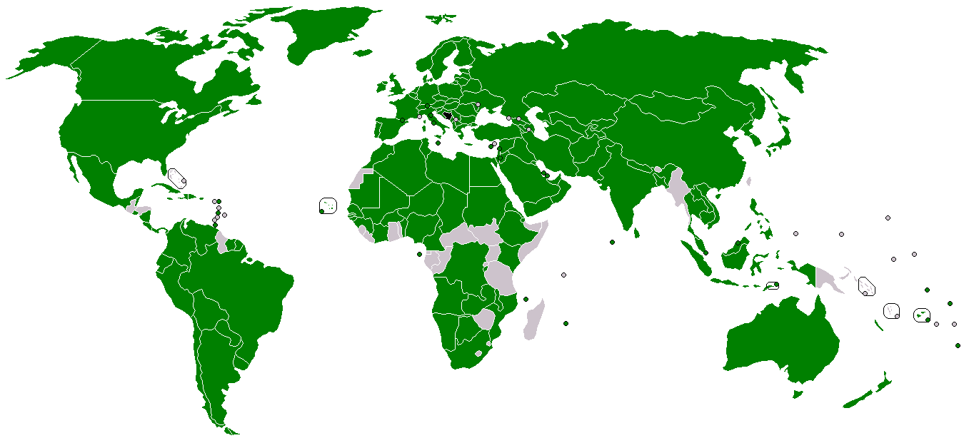 dark green - diplomatic relations, light green - diplomatic recognition only